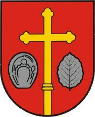 Lichtenau (Westfalen): Holtheim coat of arms